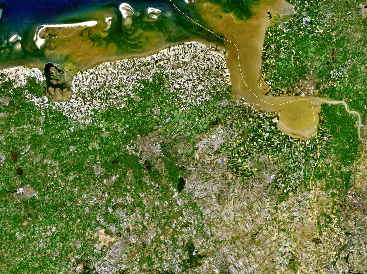 Satellite picture of Groningen, The Netherlands